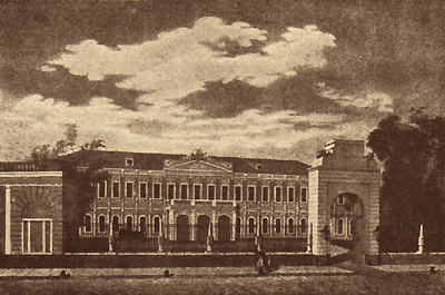 Fedor Rostopchin's palace in Moscow